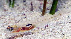 Picture of Pomatoschistus knerii